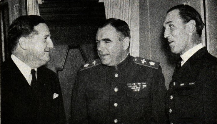 In early July 1945, the Chief of the Soviet Air Force, Fedor Falaleyev came to Stockholm on a visit. Here he is surrounded by the American Minister in Stockholm Herschel Johnson (left) and the Chief of the Swedish Air Force General Bengt Nordenskiöld.